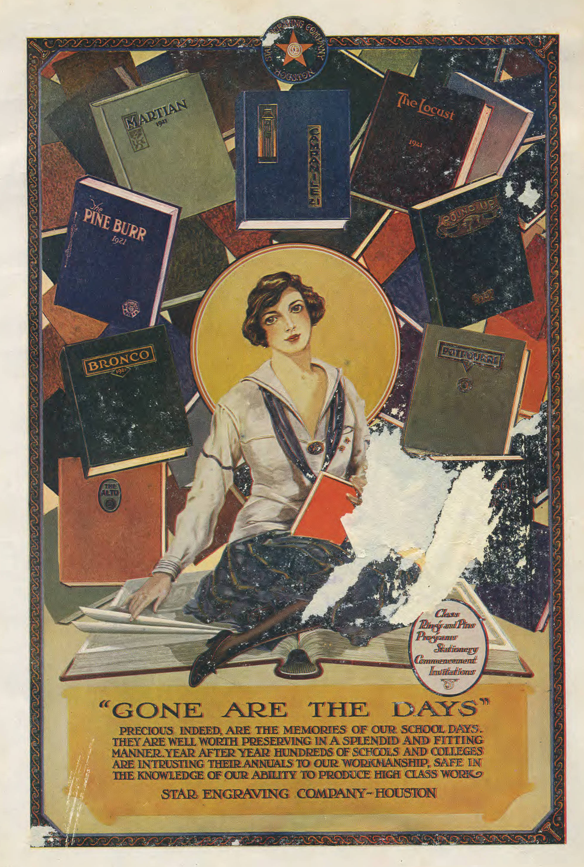 The "Gone are the Days" Star Engraving Company (Houston) advertisement in East Texas State Normal College's 1921 Locust yearbook.